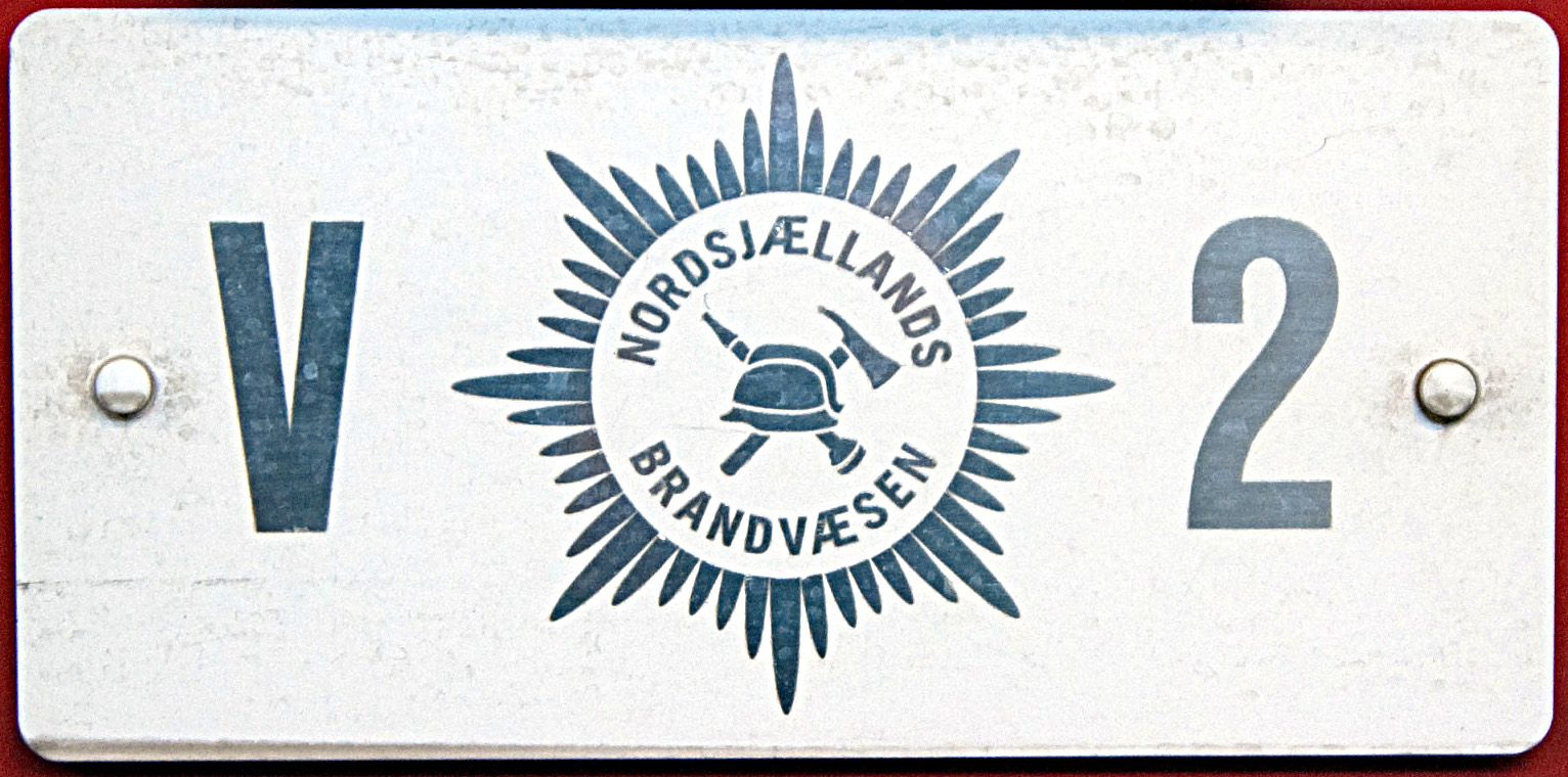 License plate on a firetruck in Helsingør.